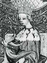 Elizabeth Granowska